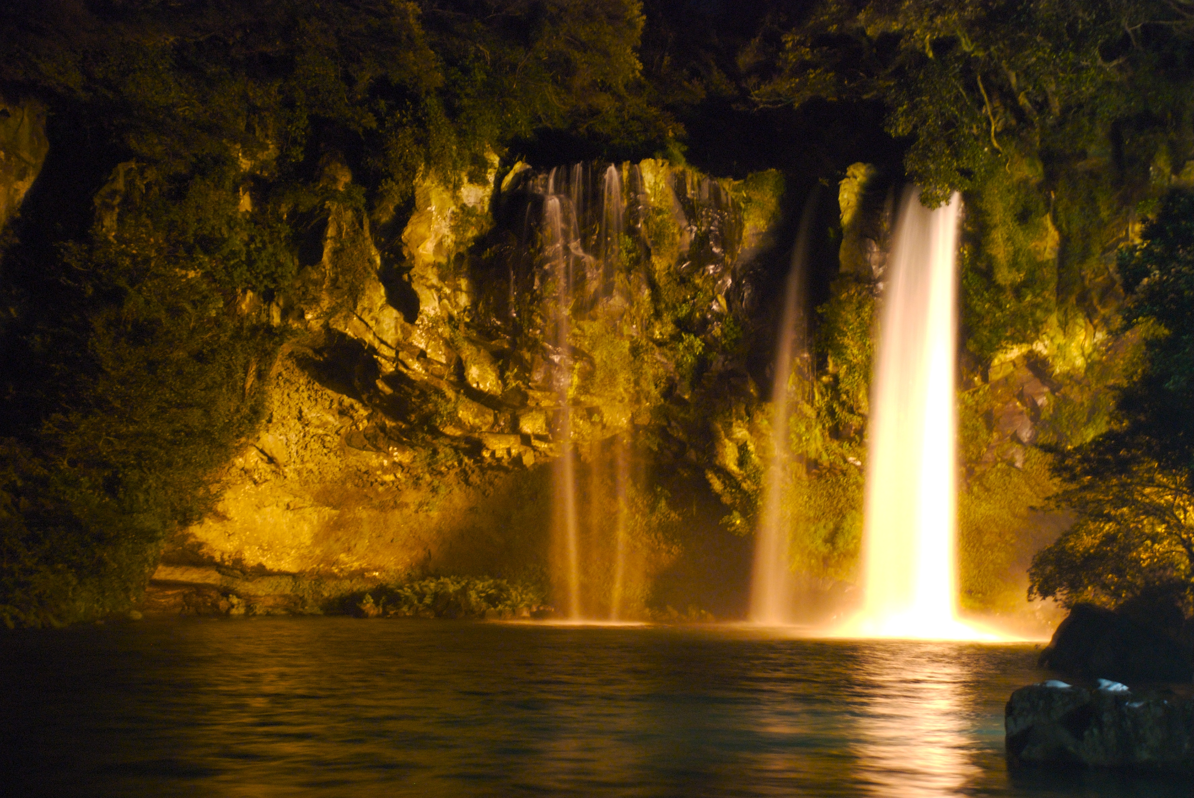 Photograph of the Cheonjiyon Waterfall in Jeju-do, South Korea.